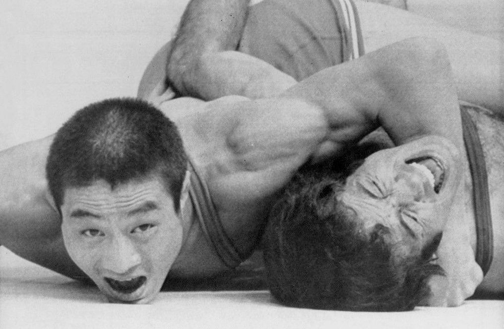 LG10 1972 Wire Photo KIVONI KATO MOHAMED GHORBANI Olympics Wrestling Headlock